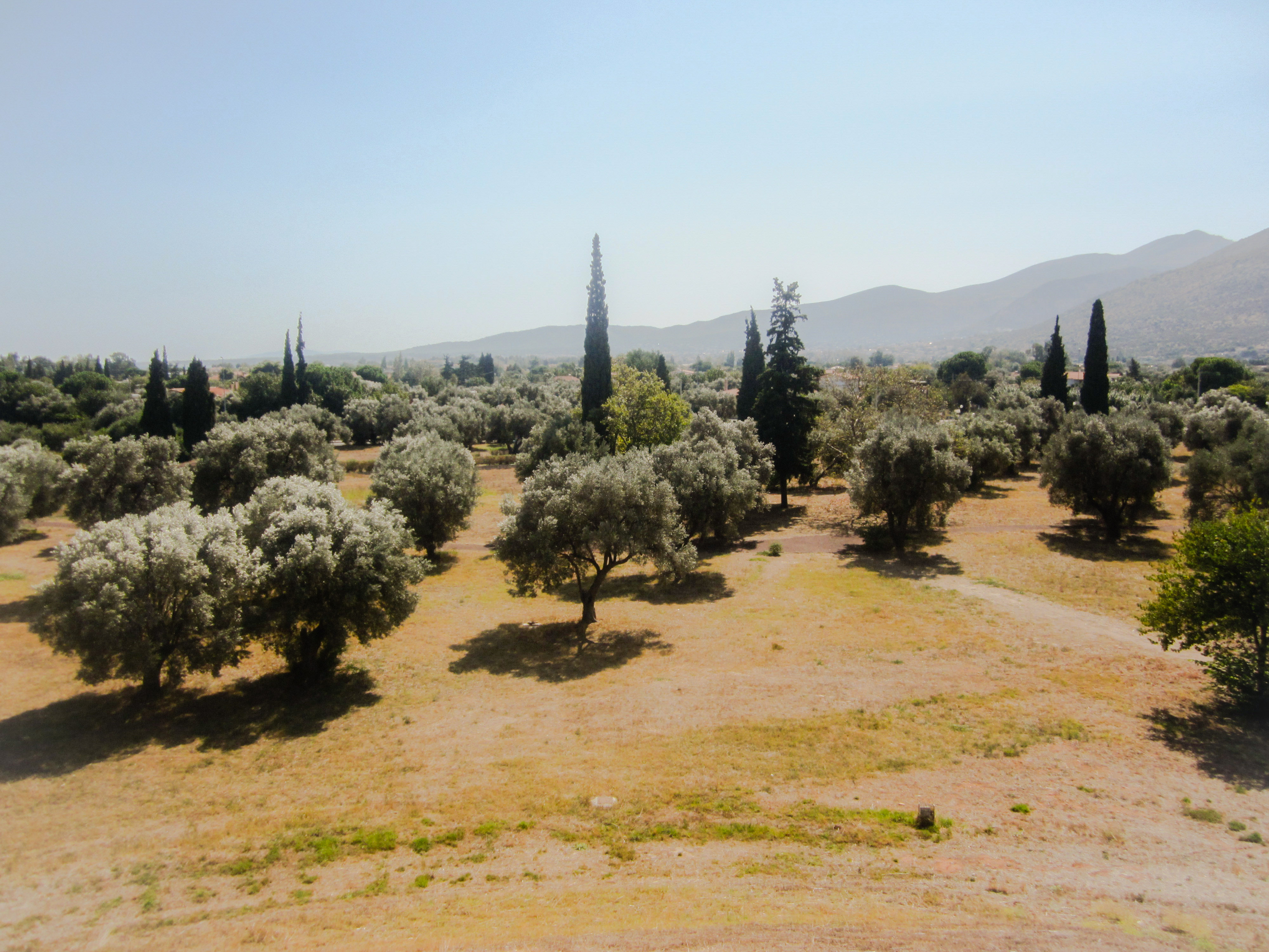 Plain of Marathon seen from the top of the Tomb of the Athenians. Marathon (Marathonas), Attica, Greece.